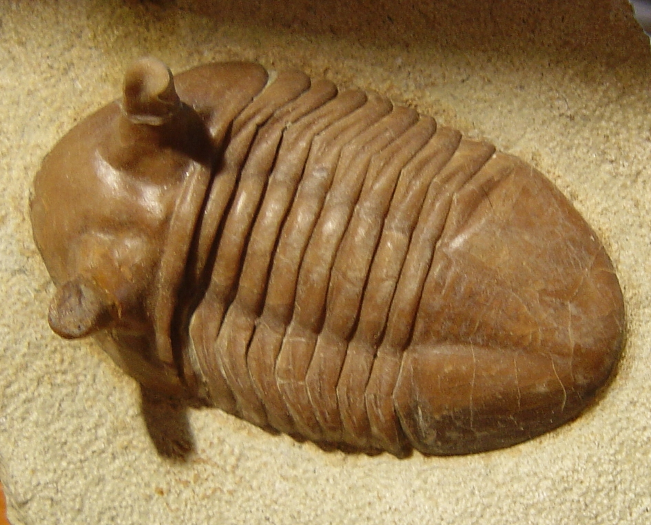 fossil of Asaphus kowalewskii I took this photo in October 2005